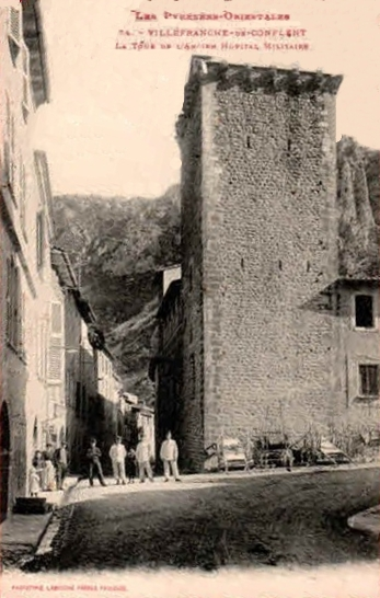 Vilafranca de Conflent - Antic Hospital Militar (old postcard)